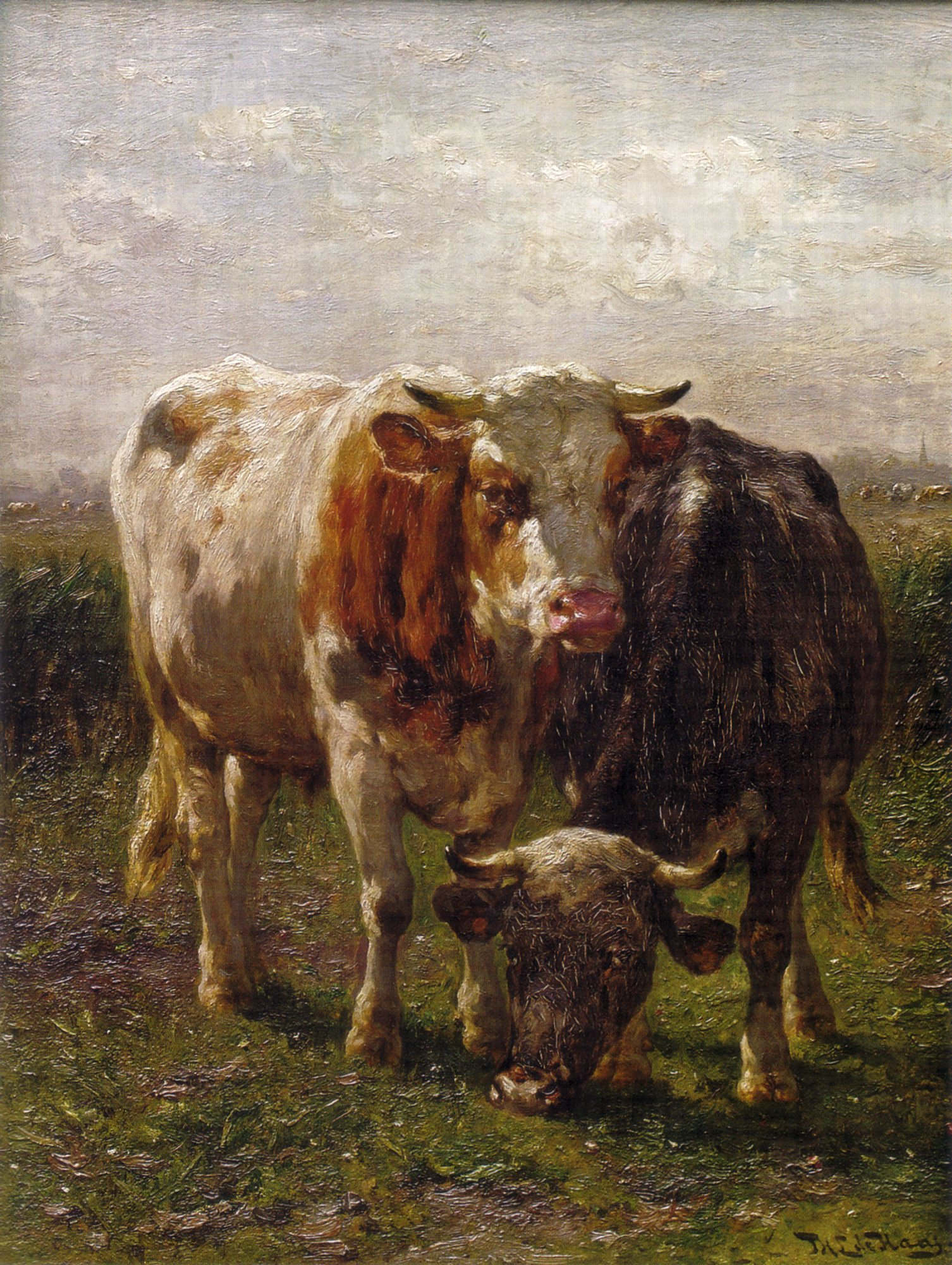 Bull and cow in the floodplains at Oosterbeek oil on panel private collection